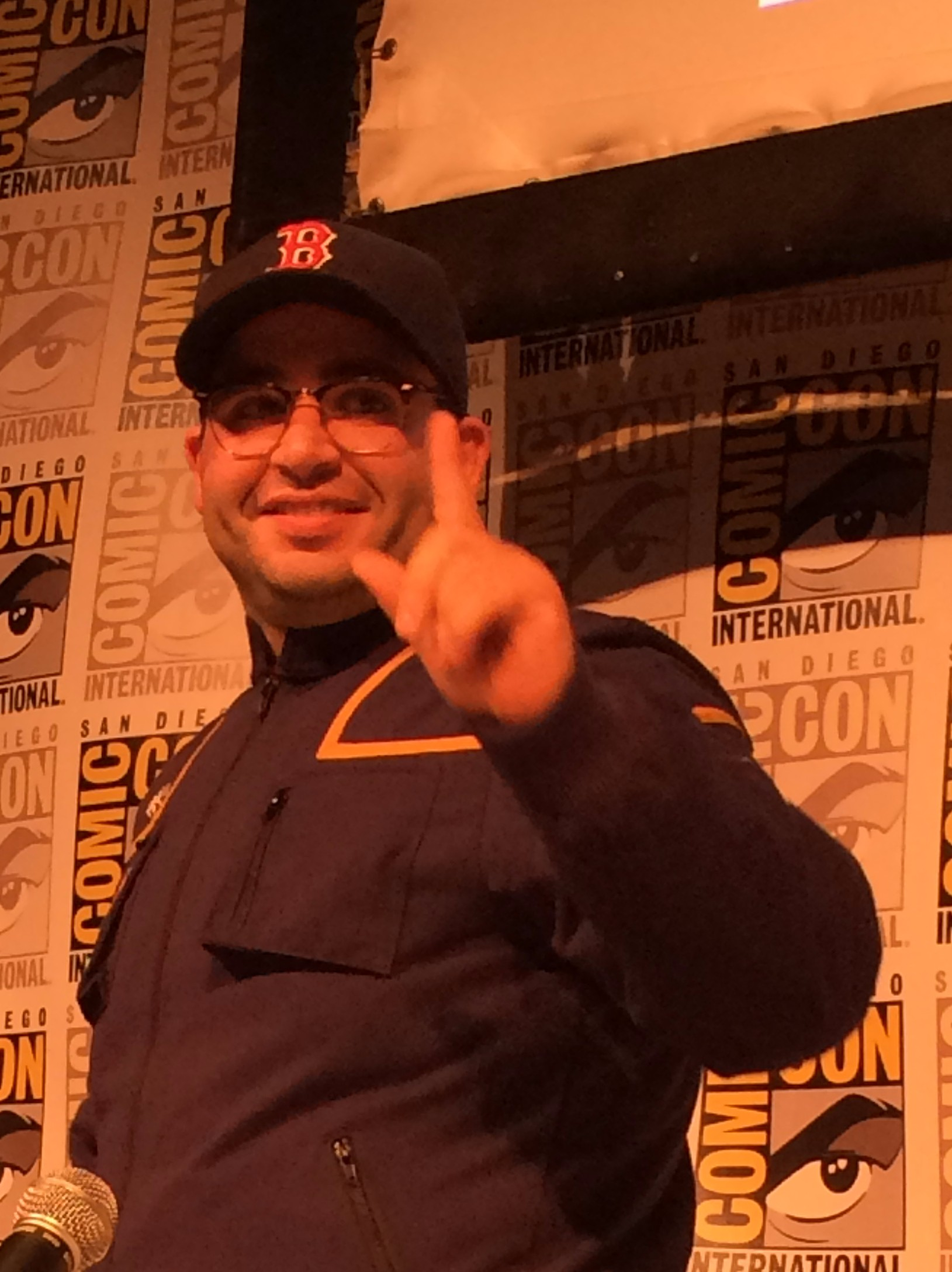 Matt Mira at the Nerdist Podcast Network Podcast Jam - July 10, 2015 @ San Diego Comic-Con. Cropped from the original version.